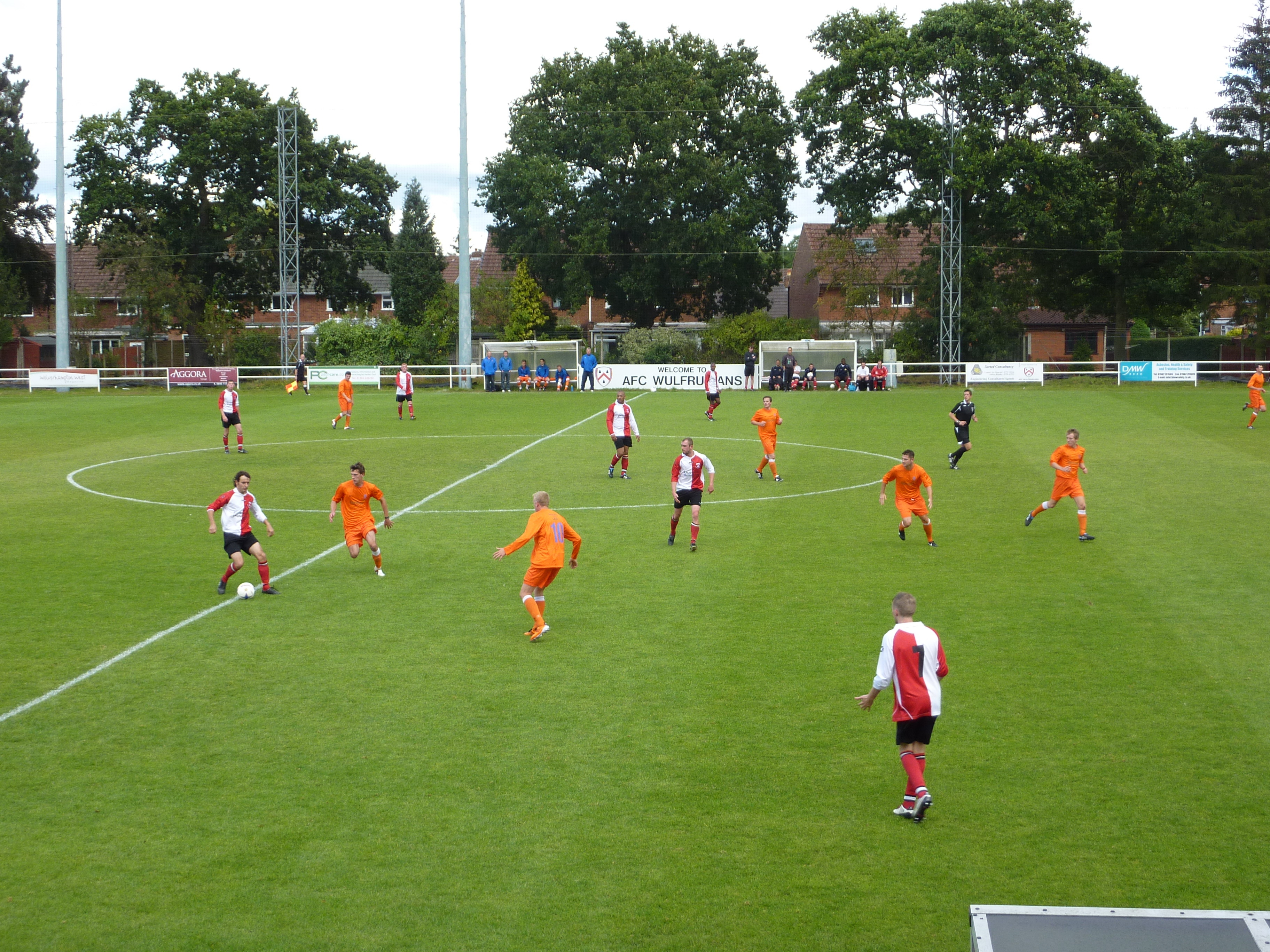 A photograph of the West Midlands (Regional) Premier Division football match between AFC Wulfrunians and Wellington on 27th August 2011.